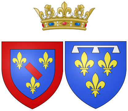 Arms of Louise Diane d'Orléans as Princess of Conti